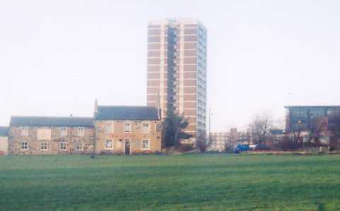 Another picture of Seacroft